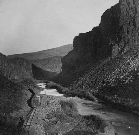 "Entering the Palisades. Ten Mile Canyon"